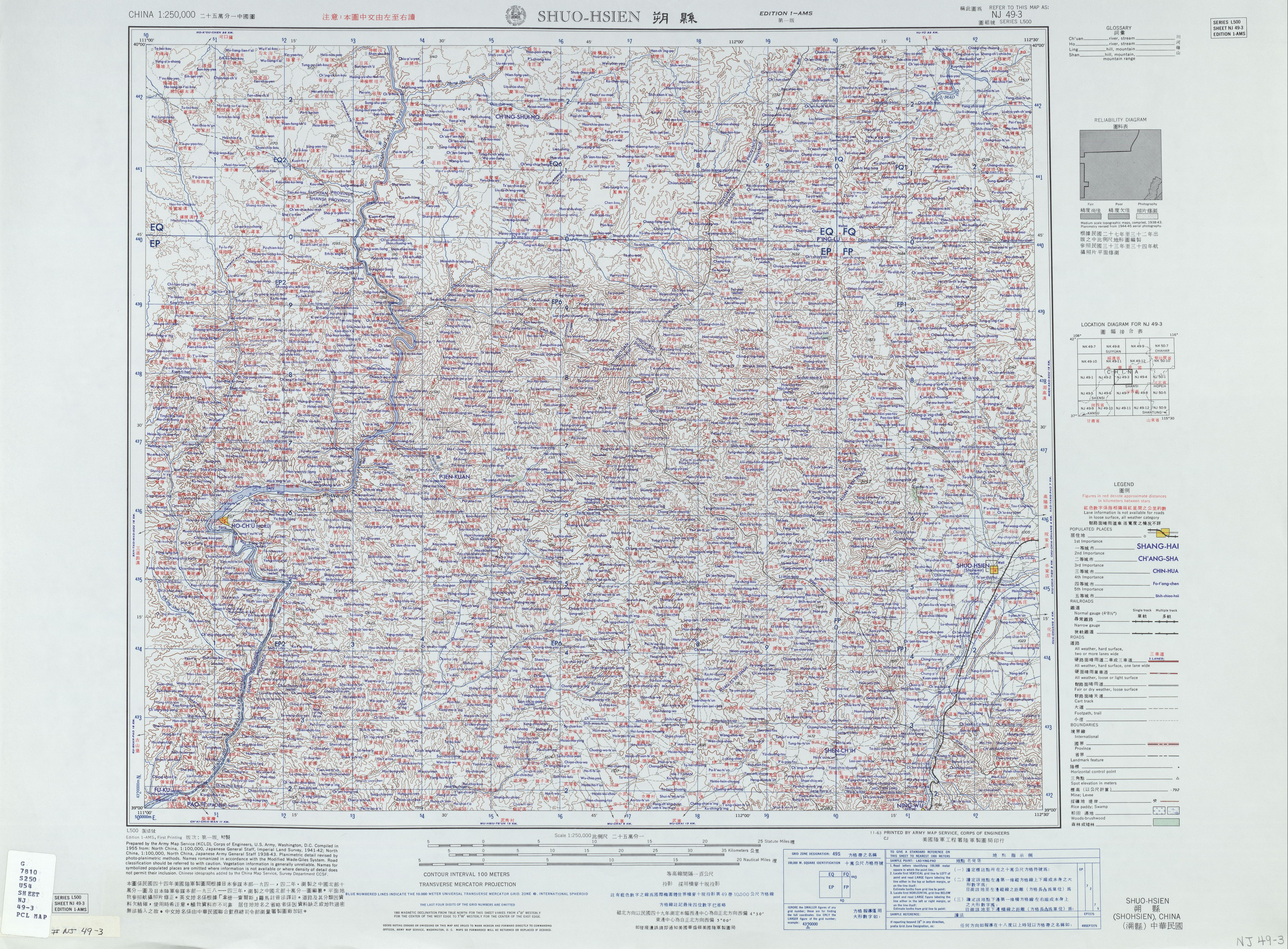 China AMS Topographic Maps